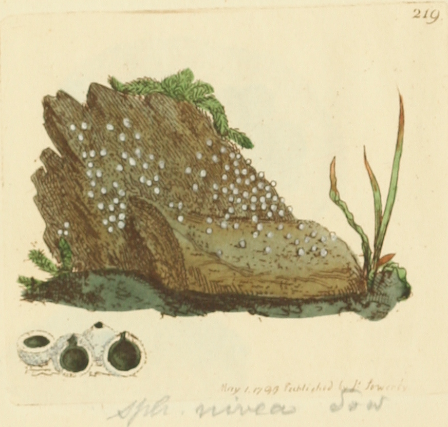 This is a plate from James Sowerby's Coloured Figures of English Fungi or Mushrooms.